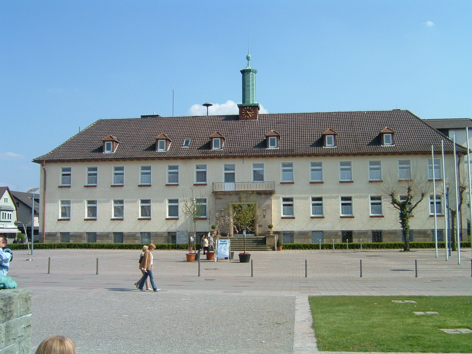 The townhall of Bad Lippspringe